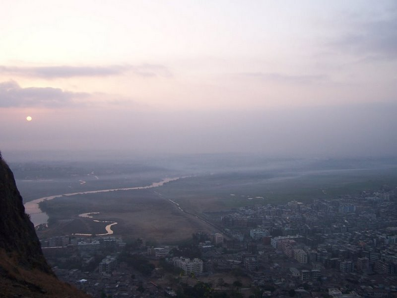 Mumbra Sunrise, Beautiful scene from the hill top